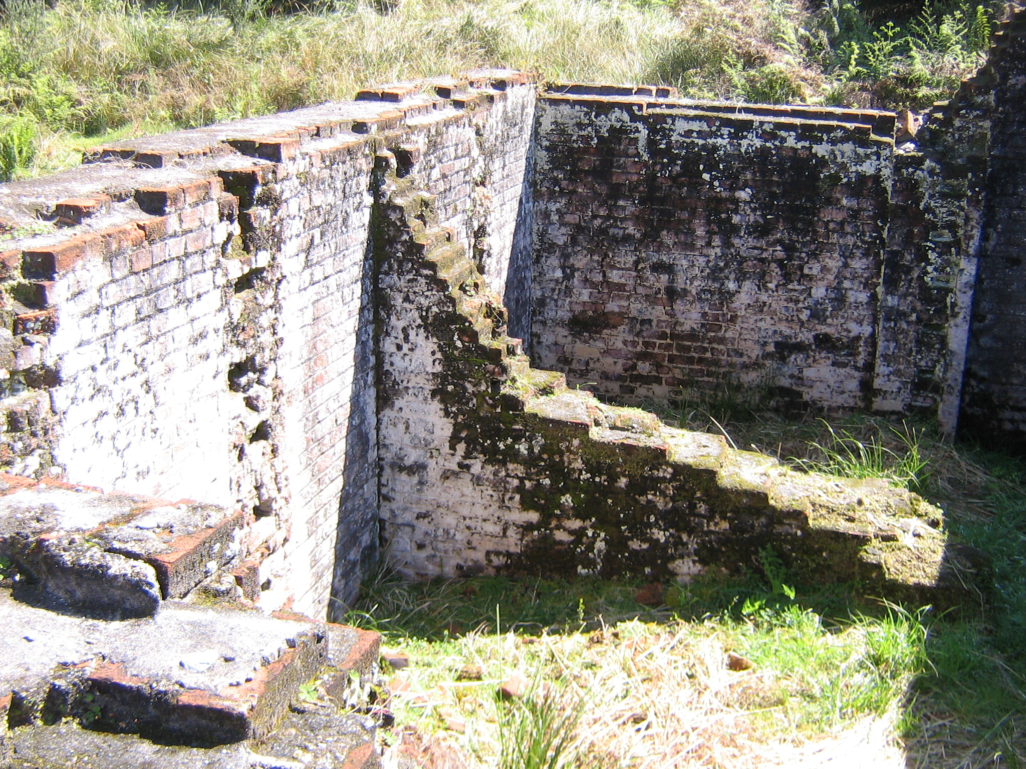 Remains of the Solitary Cells on Sarah Island, part of the Macquarie Harbour Penal Station in Tasmania